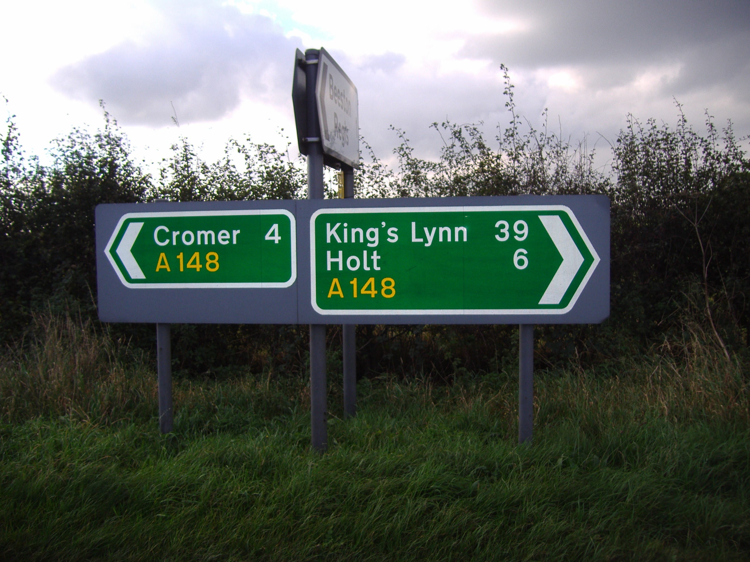 A Digital Photograph of a Road sign on the A148 by stavros 1 19th October 2007